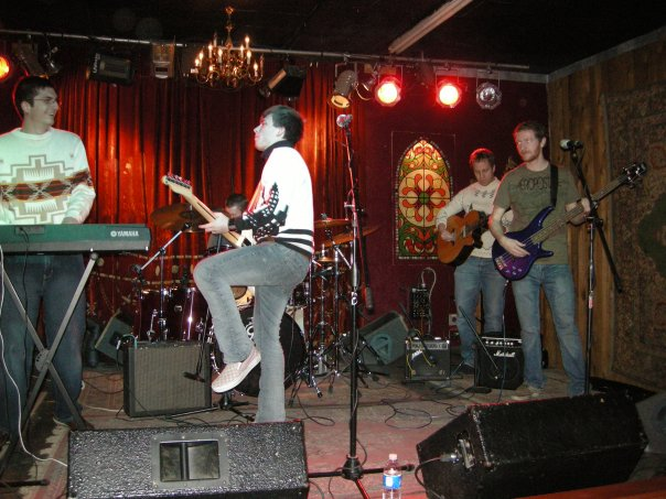 The Yarrow playing in Battle of the Bands at Velour in Provo, Utah.